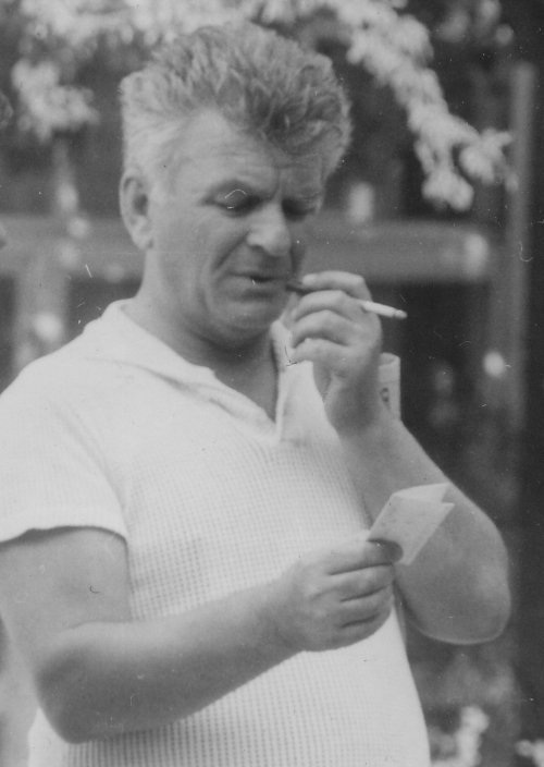 Iosif Kricheli, chess composer, at the Odessa chess festival